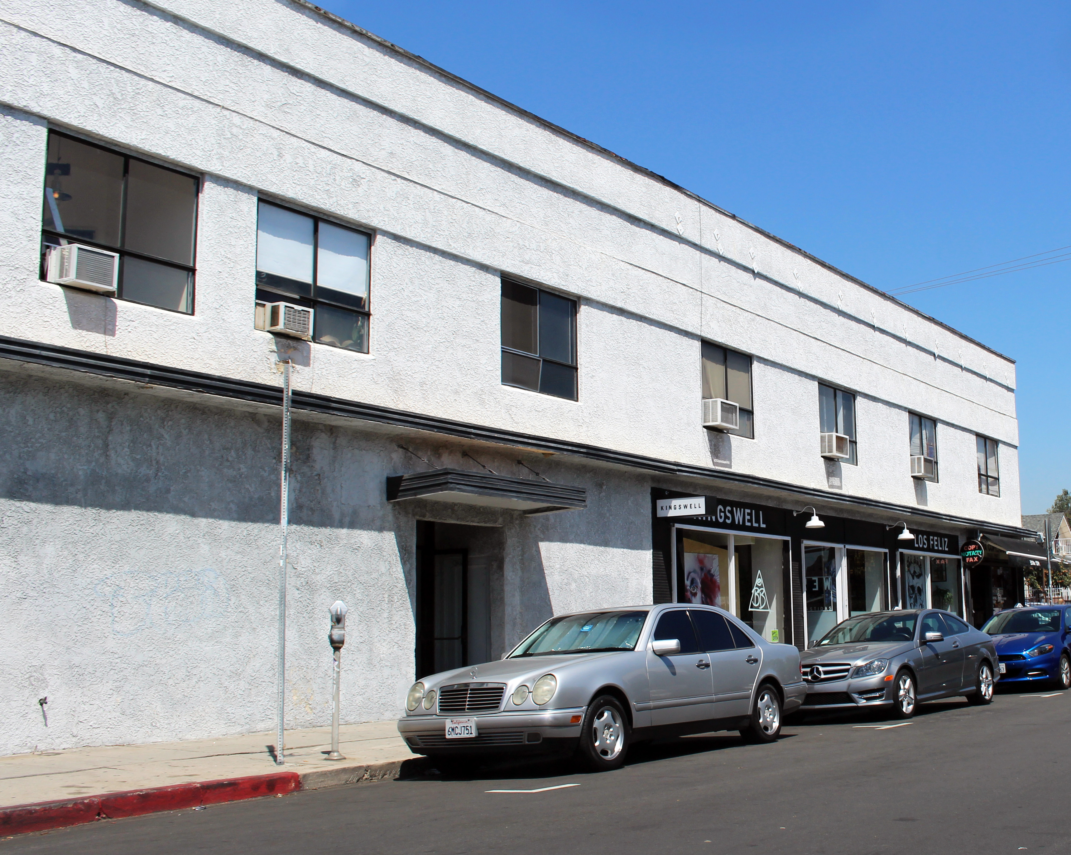 The building on Kingswell Avenue in Los Feliz, Los Angeles, California where the Walt Disney Company was started as the Disney Brothers Cartoon Studio. Photographed by user Coolcaesar on April 18, 2015.